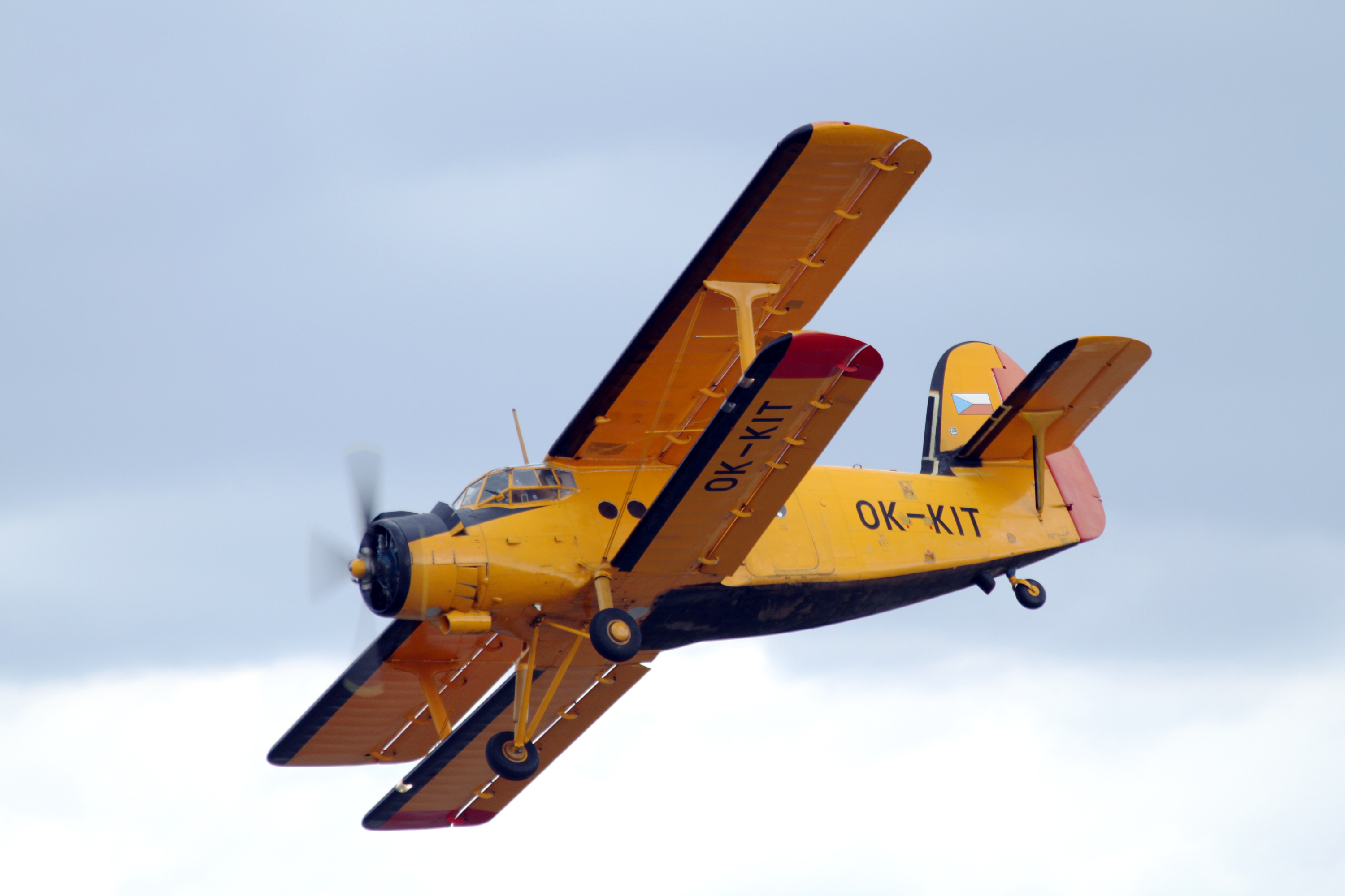 Older aircraft Antonov An-2 (Registration: OK-KIT) on Czech Air show CIAF 2015 in Hradec Králové, Czech Republic